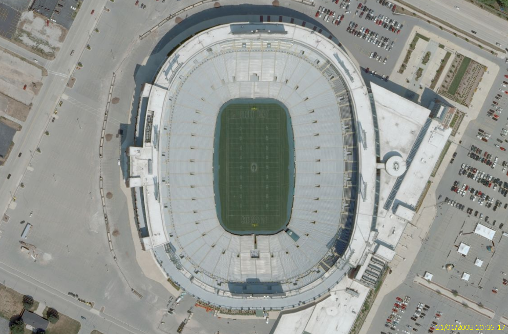 Image of Lambeau Field in Green Bay, Wisconsin from NASA World Wind.